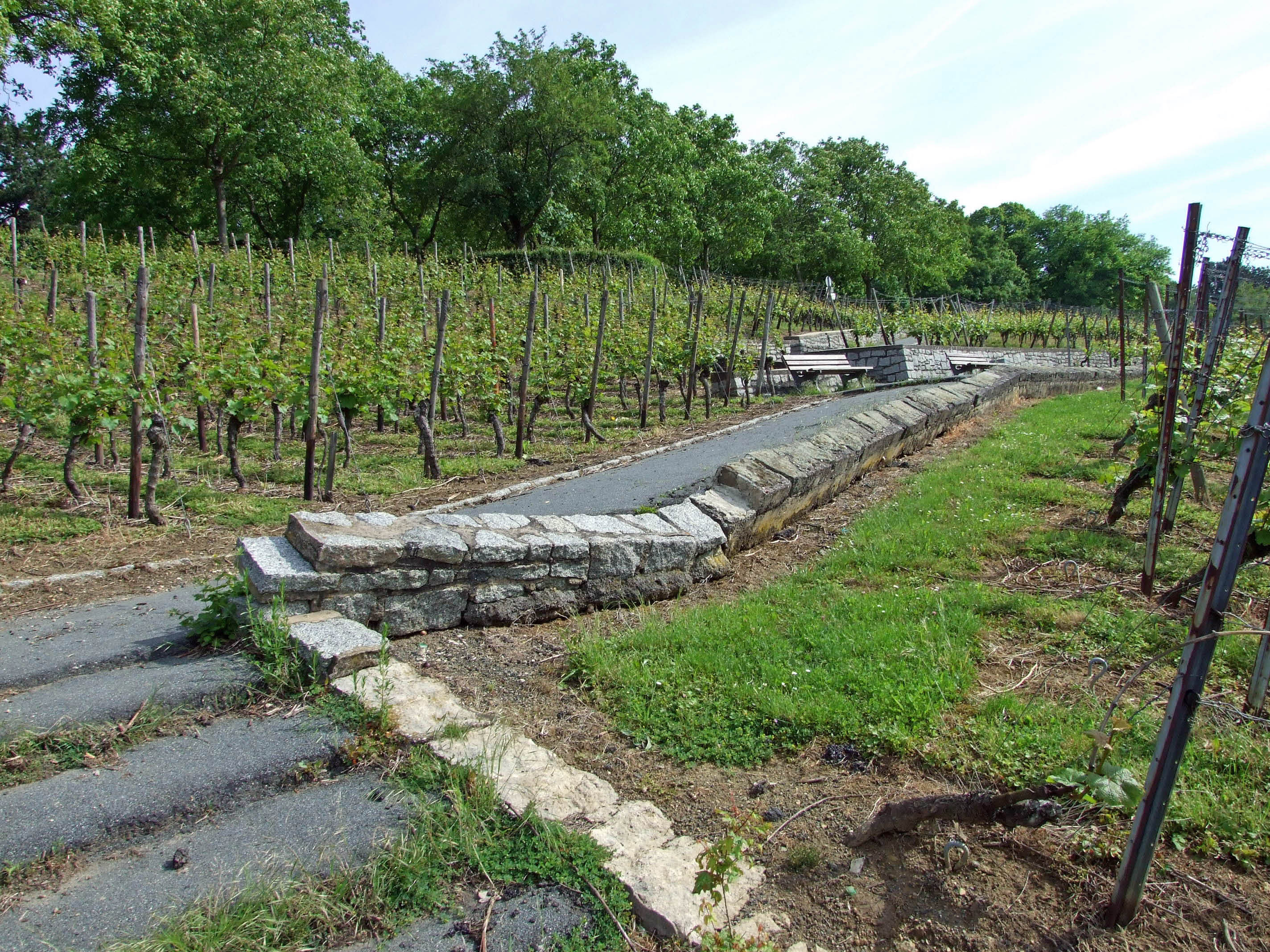 vineyard at "Lohrberg" in Frankfurt am Main-Seckbach